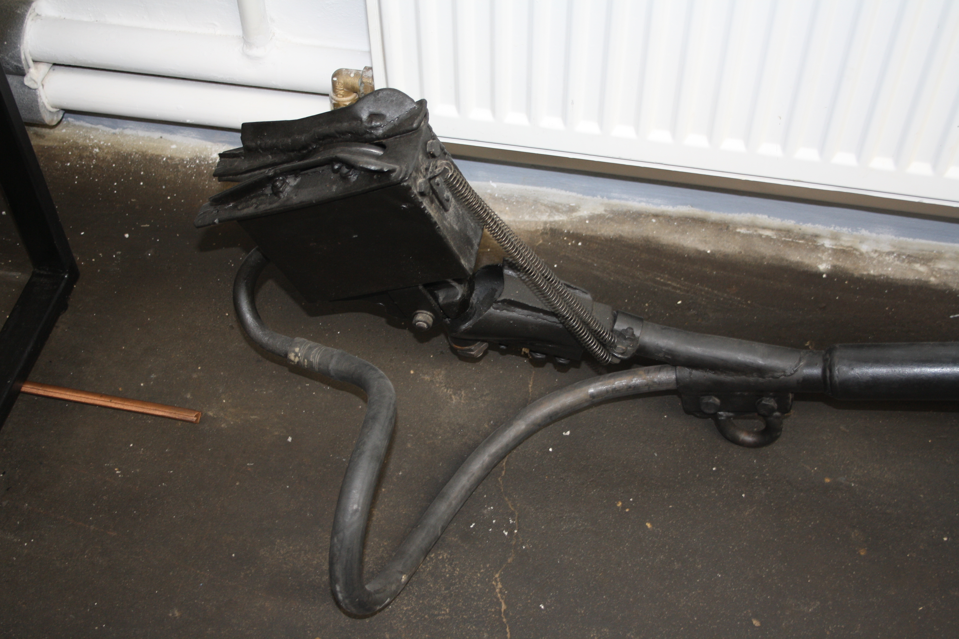 Lubricating roller from prague streetcar (Prague Public Transport Museum)